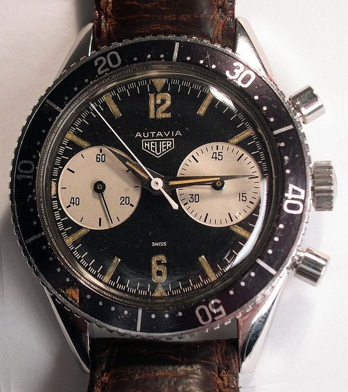 Heuer Autavia Chronograph, with Valjoux 92 movement, circa 1963